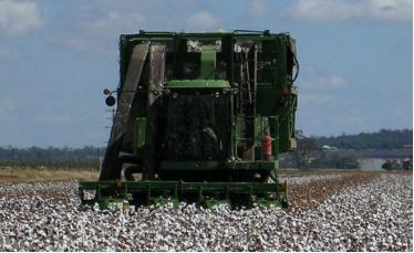 A John Deere cotton picker